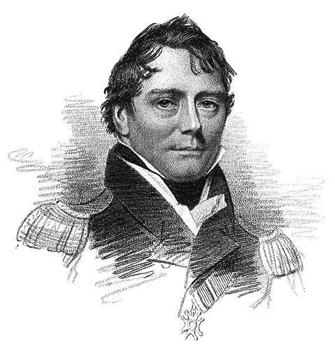 An image of Sir Murray Maxwell by Thomas Wageman created in 1817